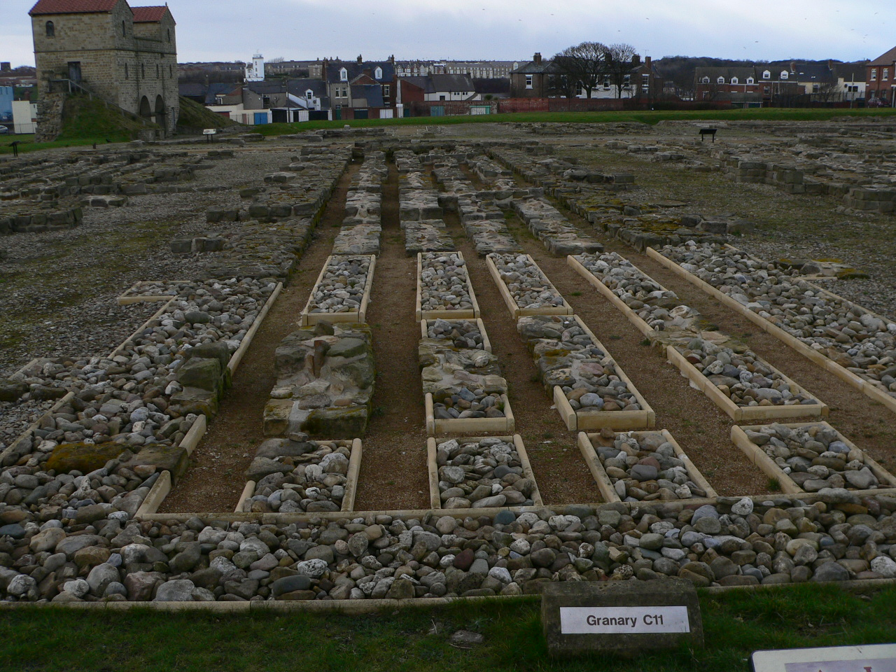 The granaries at Arbeia Roman Fort in South Shields, near Newcastle-upon-Tyne.